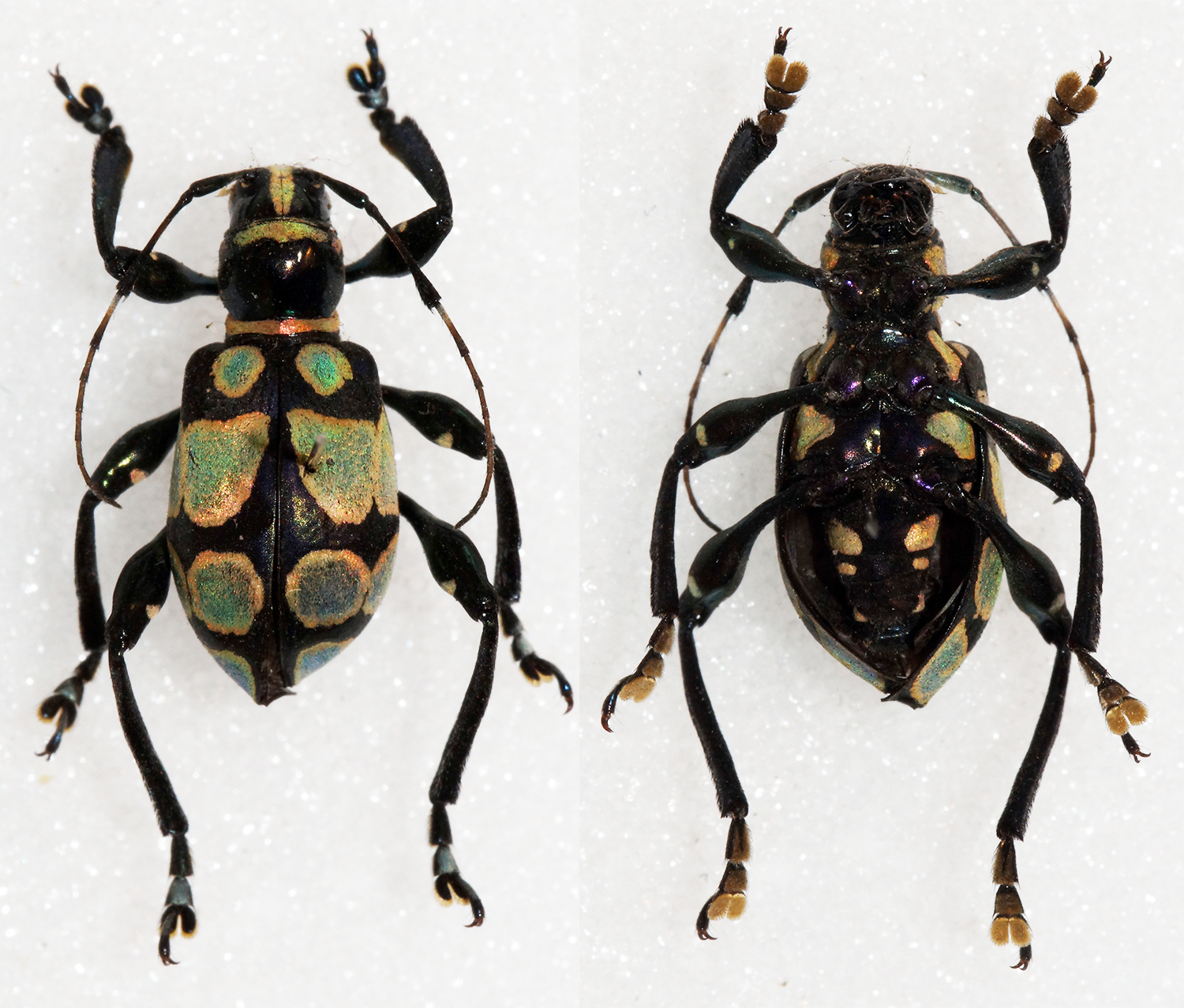 Vives,2009 Sex: ? Data: 08-2014 - Kayapa - Nueva Vizcaya - Northern Luzon - Philippines Size: 11.5mm